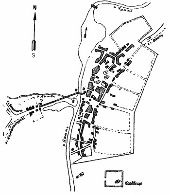 Unregular plan of Yaransk, Russia. Before 1784